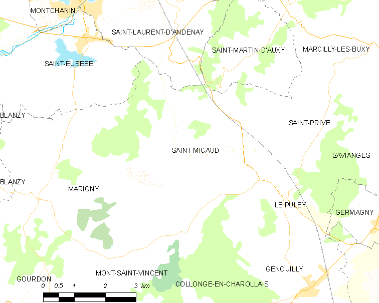 Map of French municipality